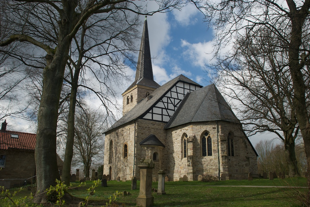 The Stiepel Church with graveyard, Bochum, Germany, as seen from Brockhauser Straße/ Brockhauser Street